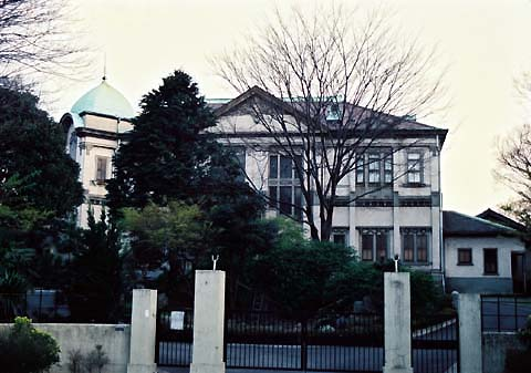 1921-1992, a residence of Chobei Tanaka at Tokyo.